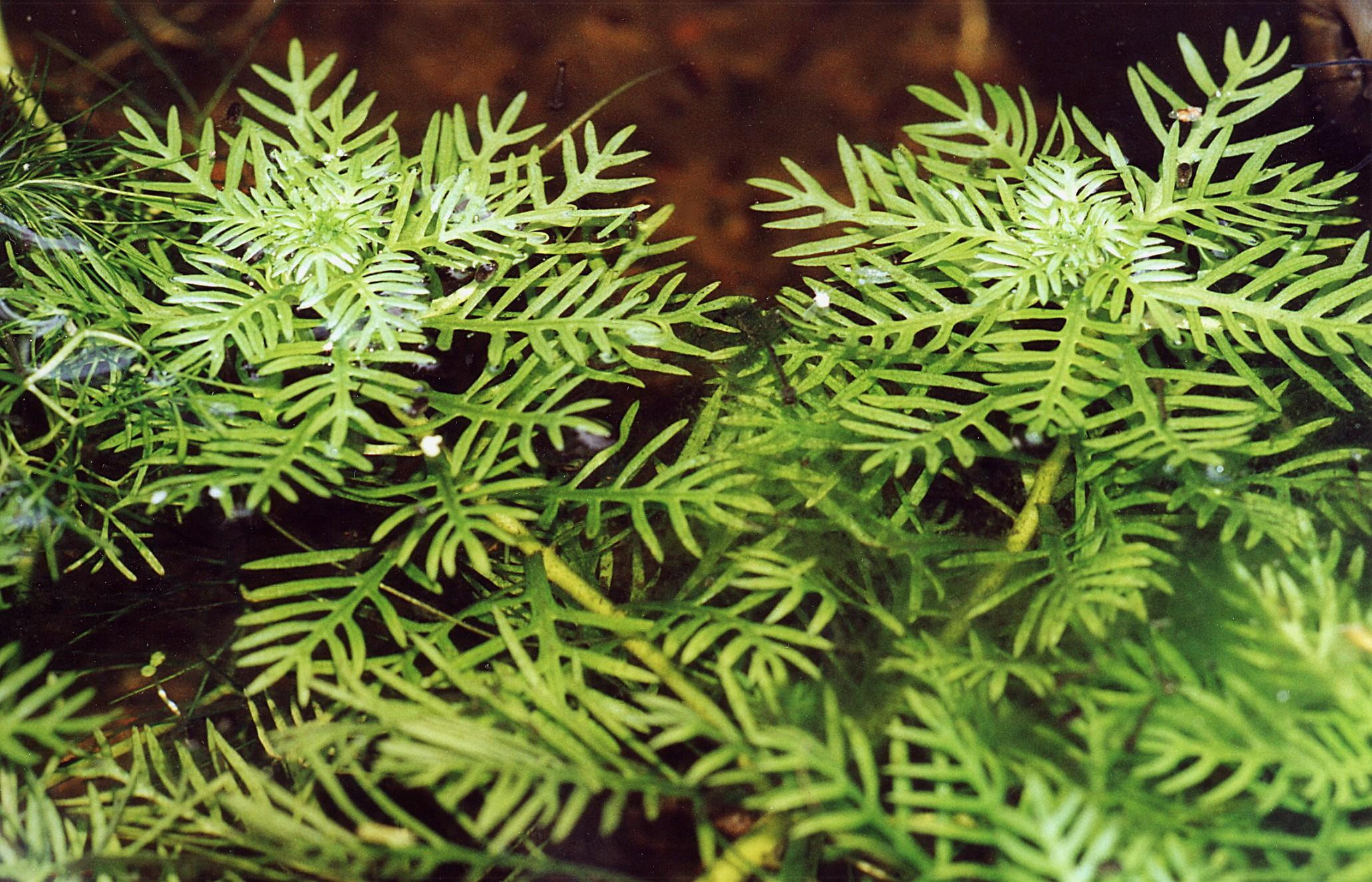 Submerse leaves of Hottonia palustris.